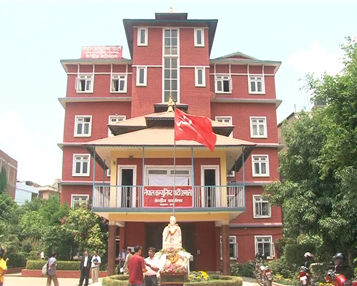 CPN Uml Building in Balkhu